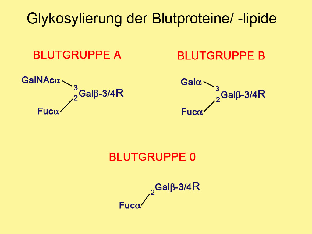 Blood group glycosylation